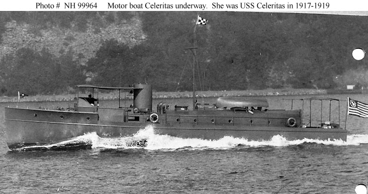 The motorboat Celeritas, probably in the vicinity of New York City, prior to her United States Navy service as the patrol vessel .